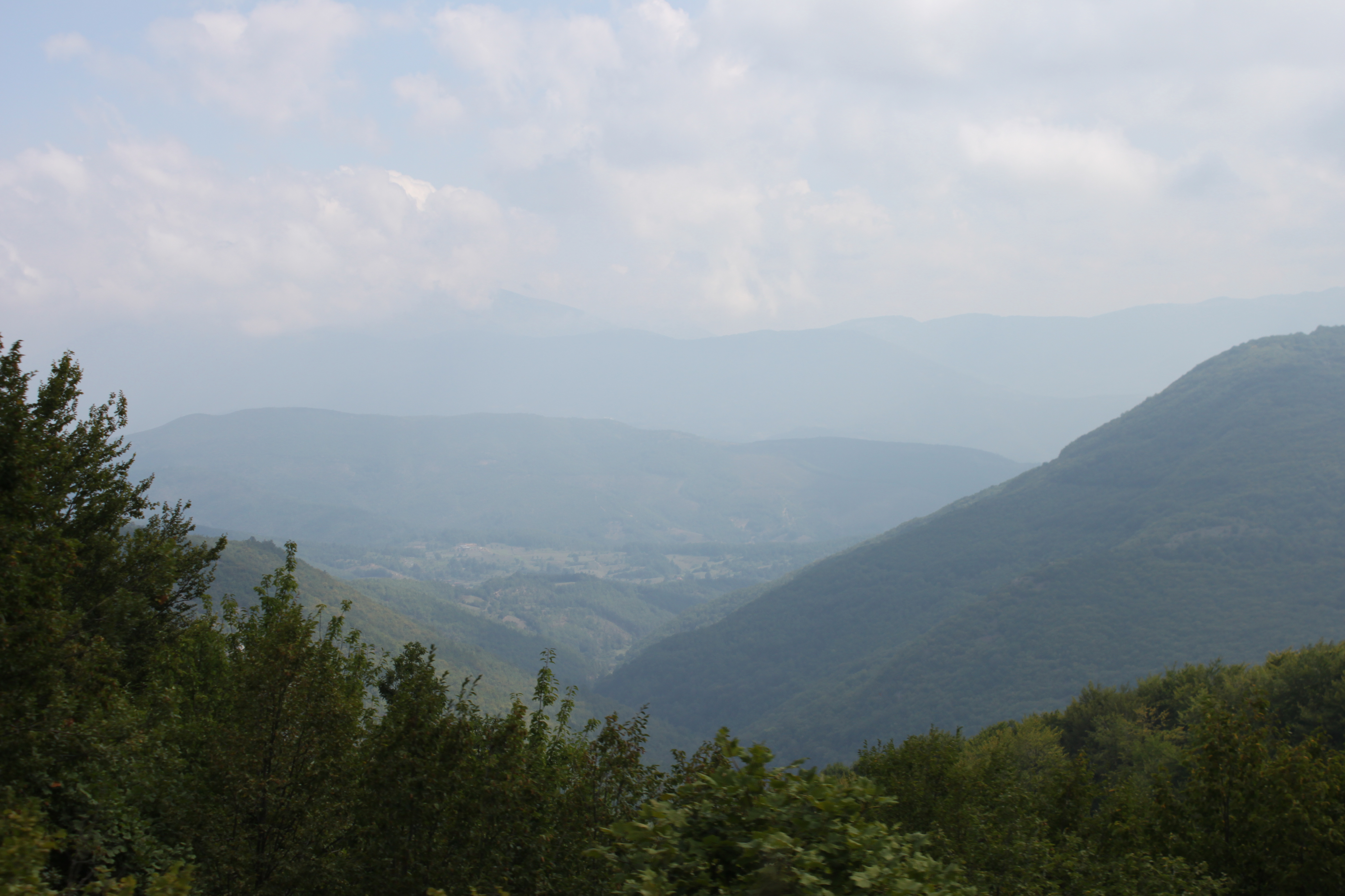 Straža Pass; Look north to Gostivar / Gostivari